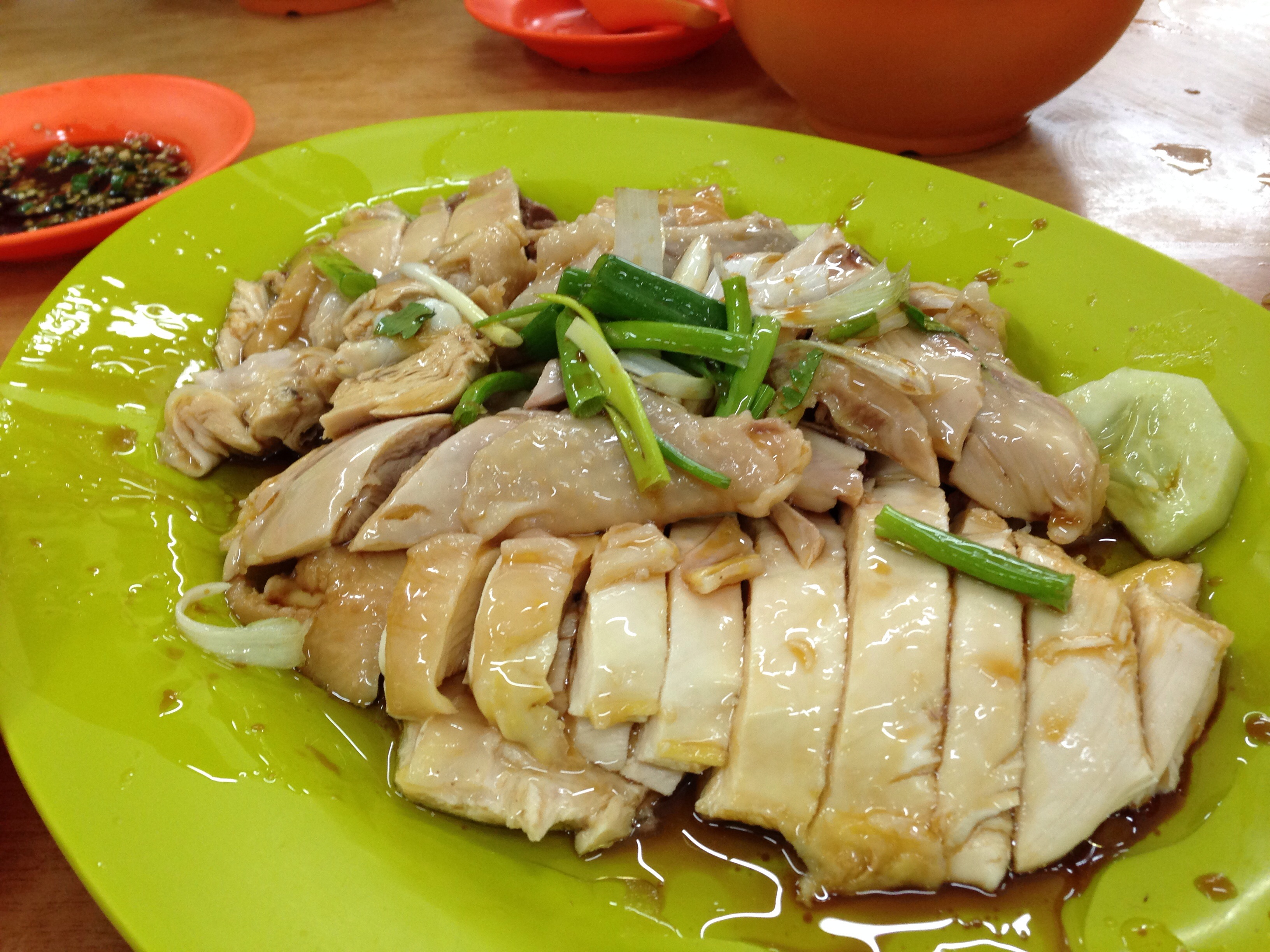 Ipoh Chicken